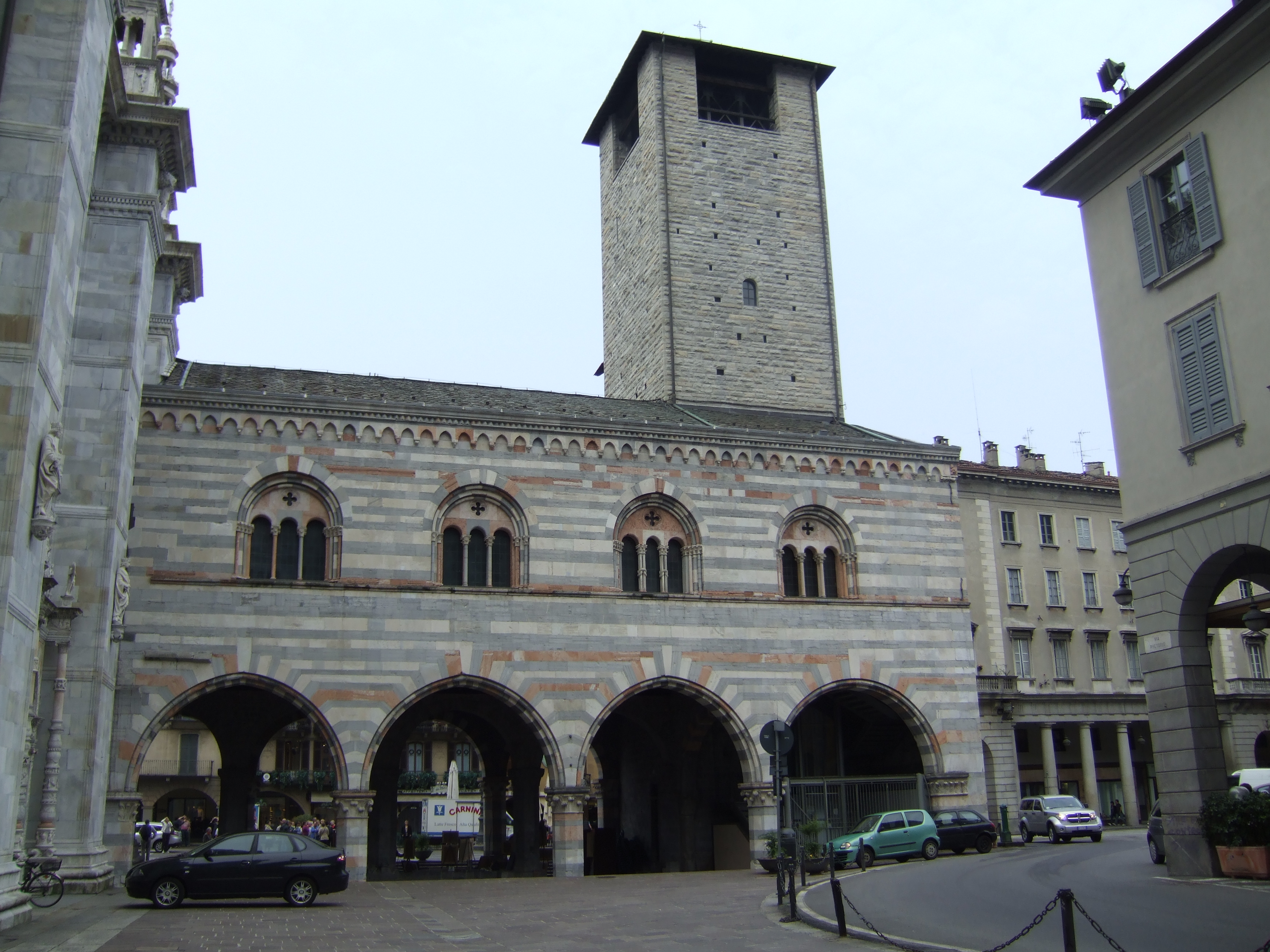 "Broletto" (Ancient name of City House) in Como (Italy) - N-E side